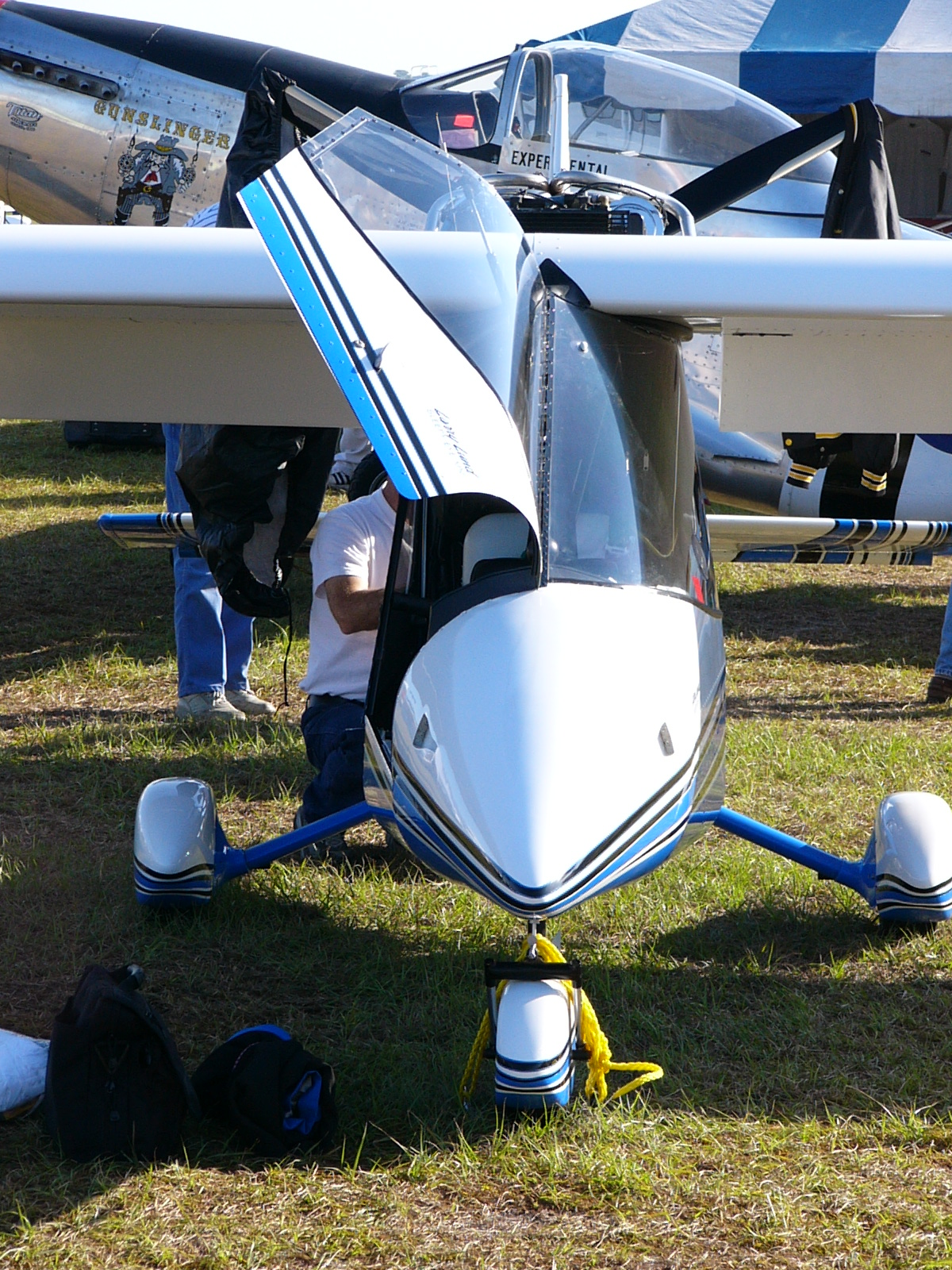 A Titan Tornado II ultralight aircraft N5099L at Sun 'n Fun 2004, Lakeland, Florida, USA